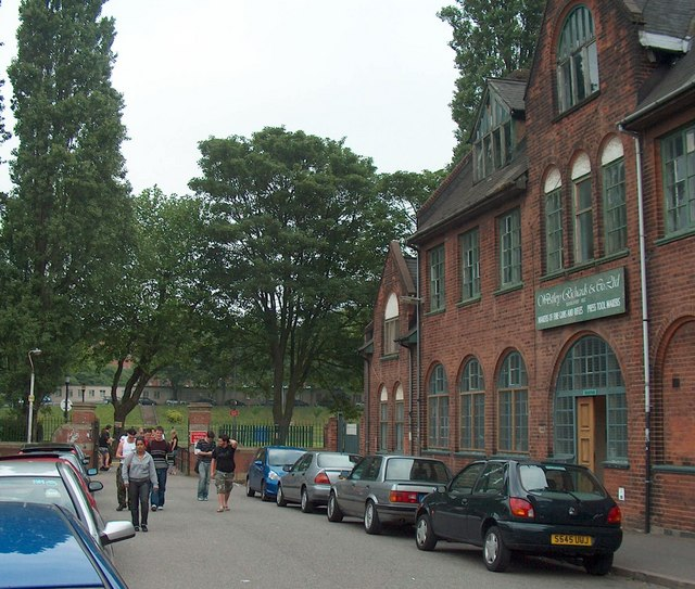 Town and Gown - Grange Rd Bournbrook. Picture shows students at Grange Rd Gate alongside Westley-Richards an old Birmingham company world-renowned purveyor of sporting guns.